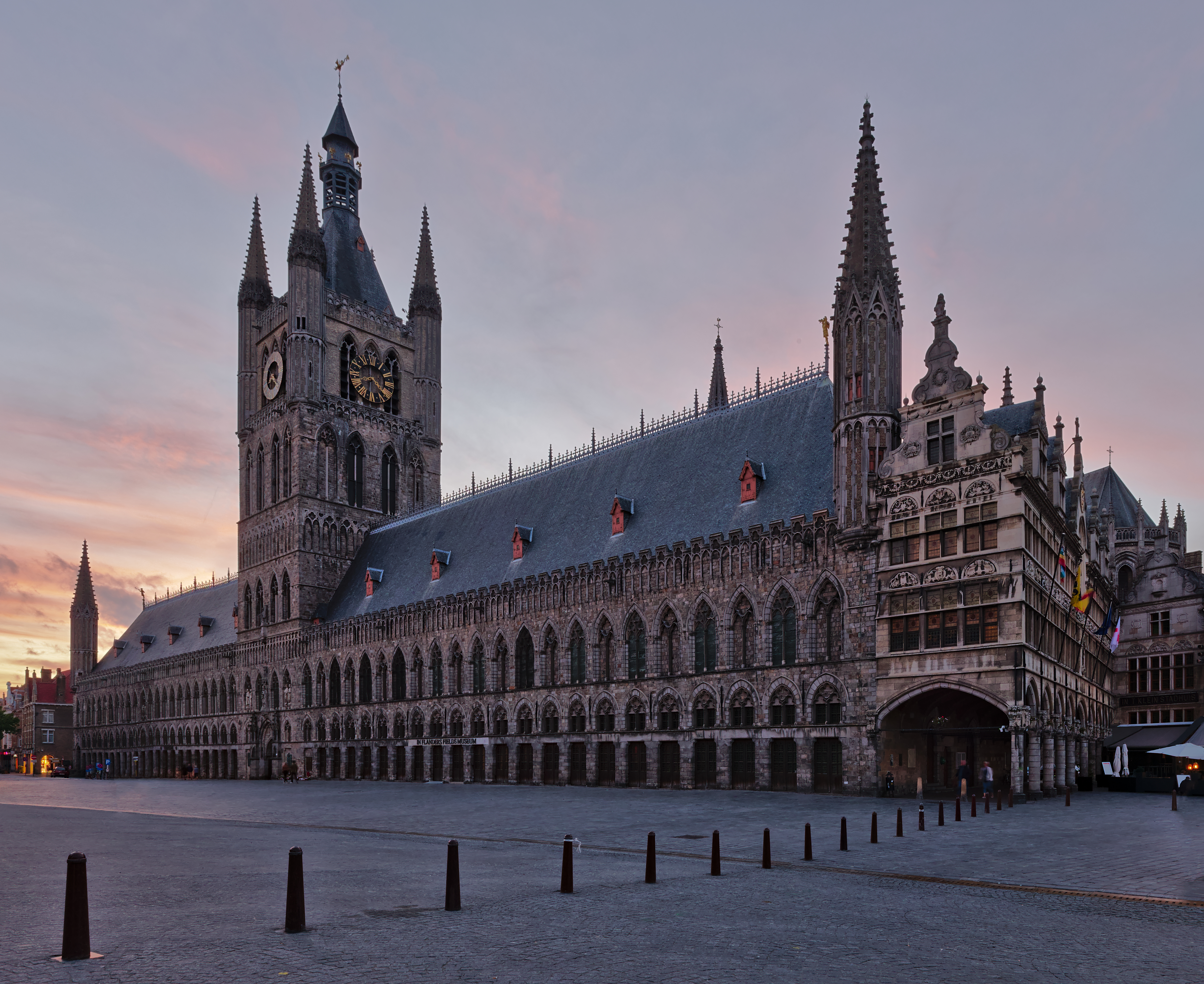 Ypres Cloth Hall during civil twilight This place is a UNESCO World Heritage Site, listed as Belfries of Belgium and France.